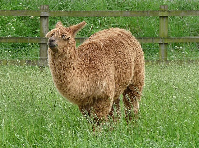 Alpaca at Darts Farm. One of a group of three in a small enclosure 1310771.